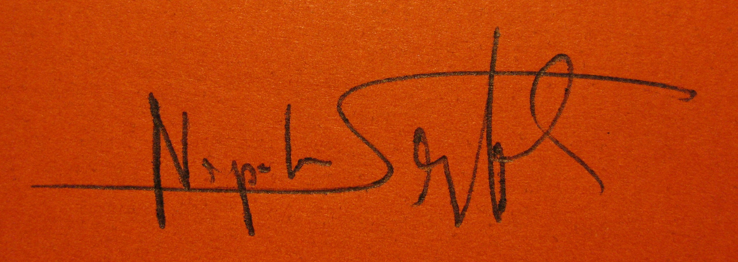 autograph (from 1992-07-13) of german author Napoleon Seyfarth (1953-2000)